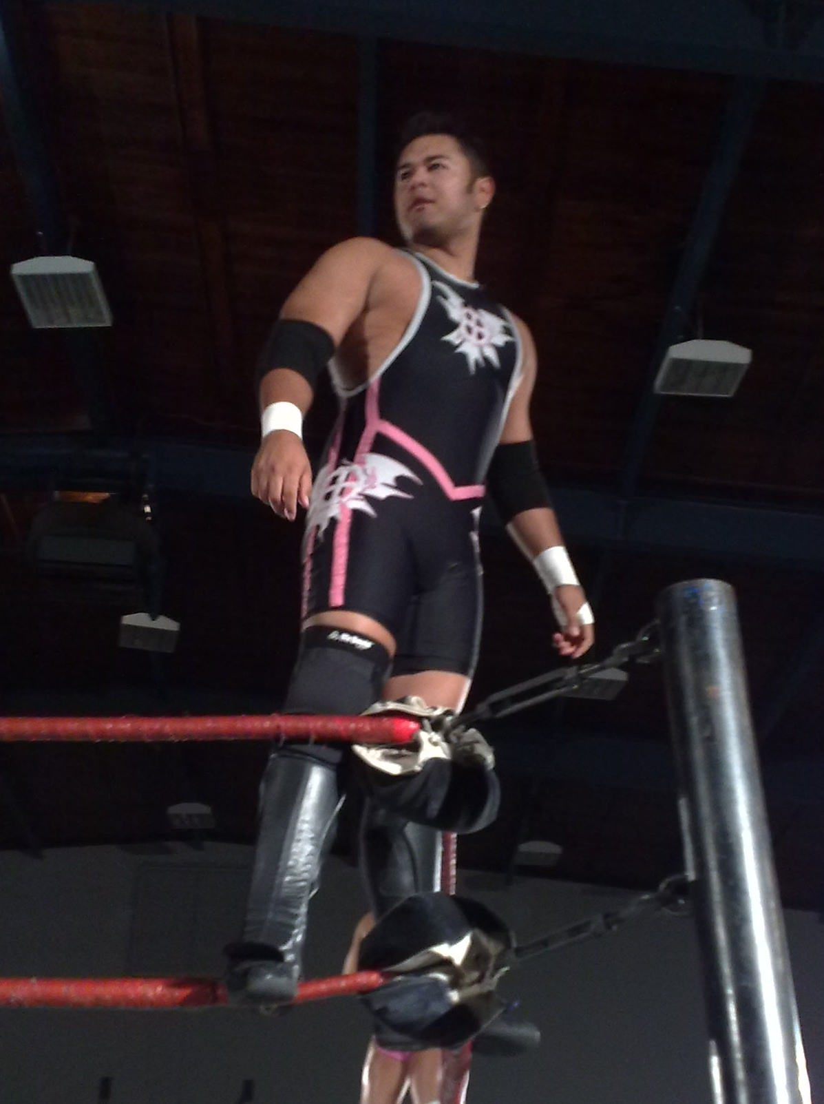 Professional wrestler Scott Lost posing on the turnbuckles at Pro Wrestling Guerrilla's DDT4 Night 1 show on May 17, 2008.